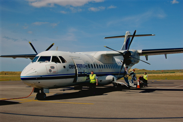 Donegal Carrickfin Airport - Arrival via Aer Arann